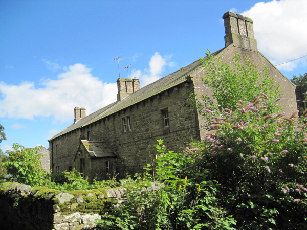 Tarn House, Tindale Tarn, Tindale, Cumbria, England. Farmhouse incorperating a Peel tower